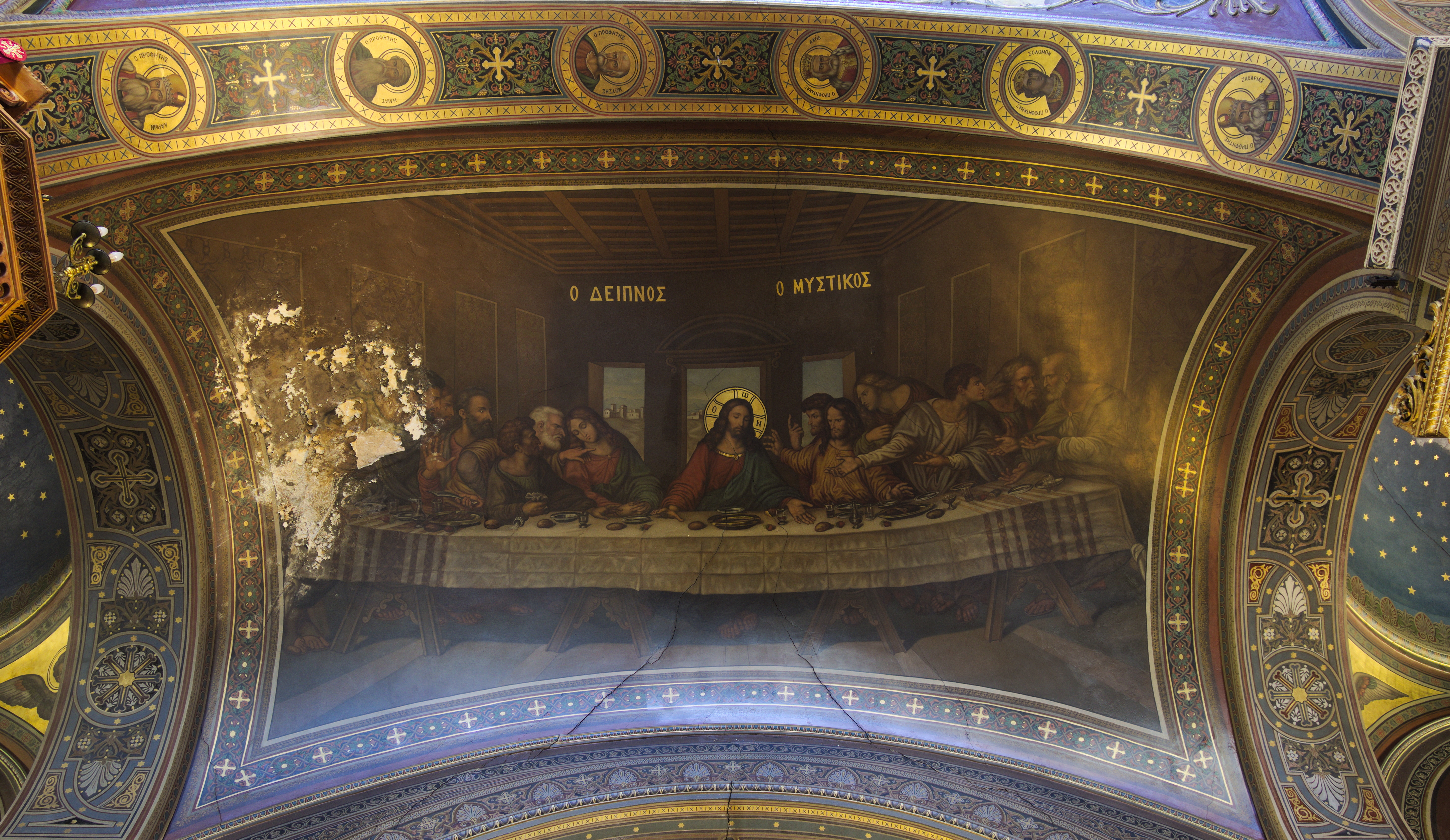 A copy of Last Supper by Leonardo da Vinci at Saint George metropolitan cathedral, Nafplio.